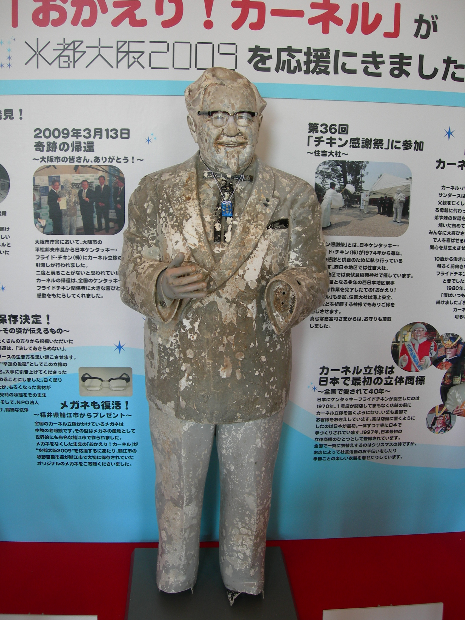 Curse of the Colonel. taken in 2009.